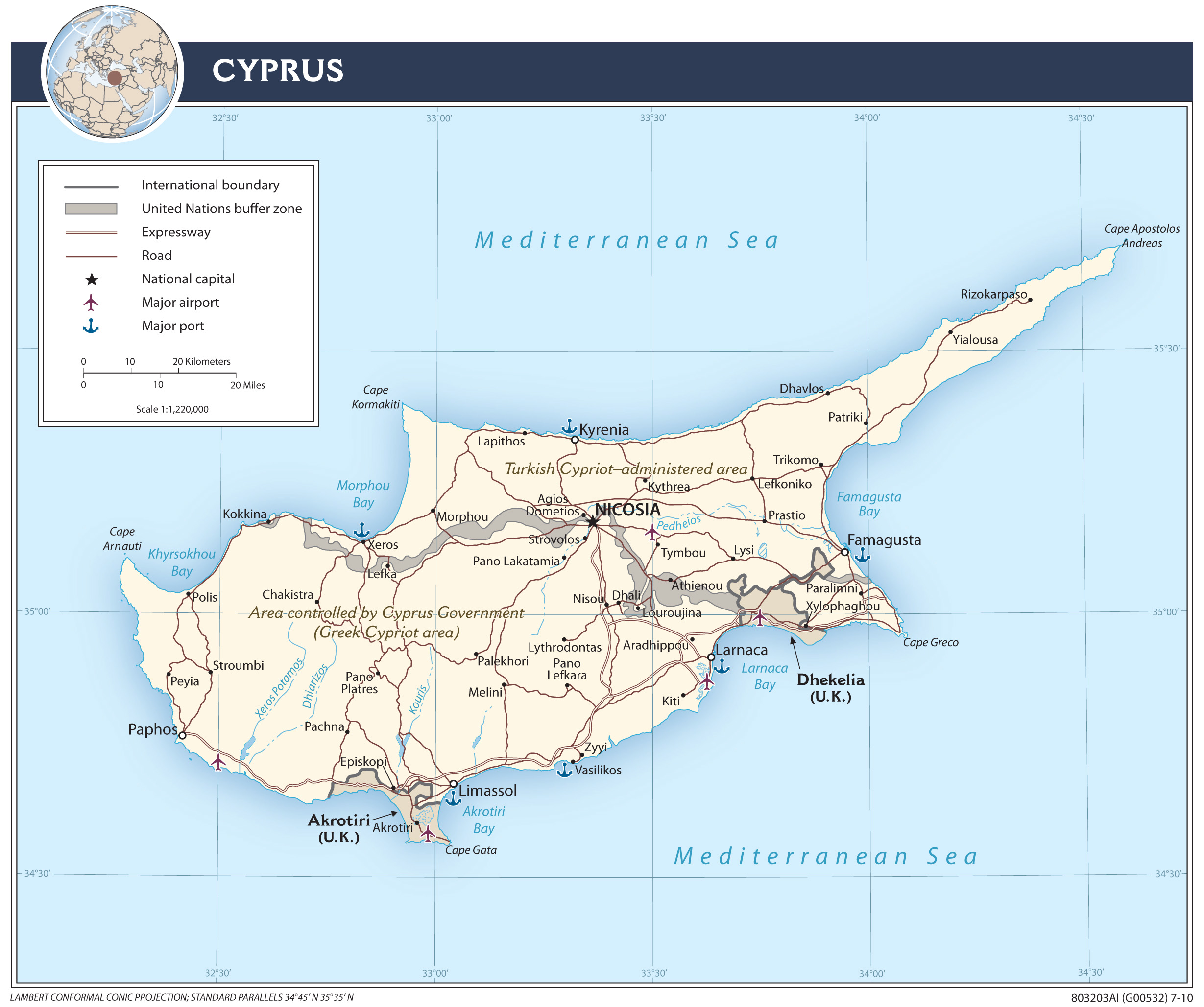 Transport system in Cyprus, 2010.